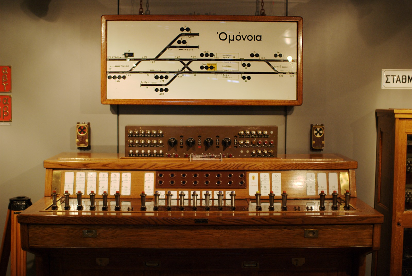 GREECE: The old lever frame and track diagram of Omonoia station of Hellenic Electric Railways and its successor Athens-Piraeus Electric Railways. It was removed when control was transferred to the new signalling center at Irini station and is now exhibited in the small museum at Piraeus station.